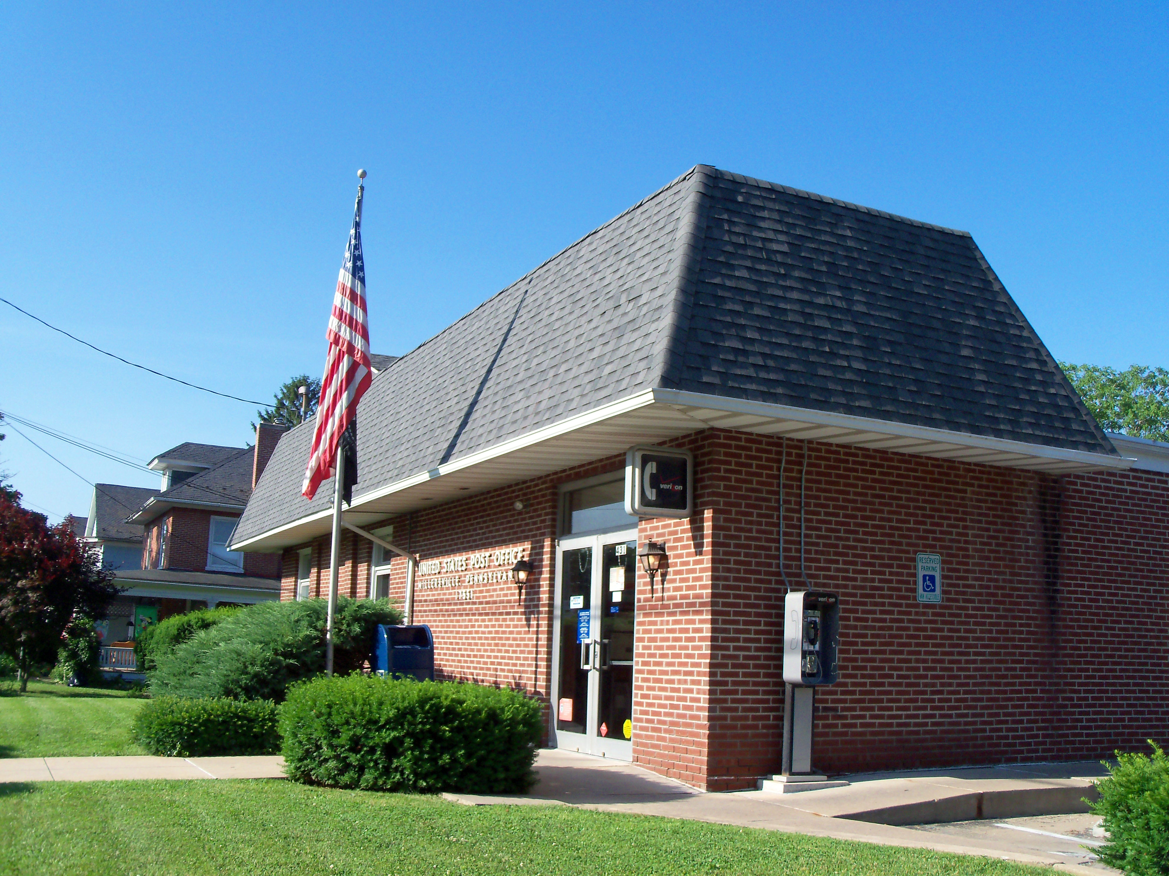 United States Post Office of Millersville, Pennsylvania